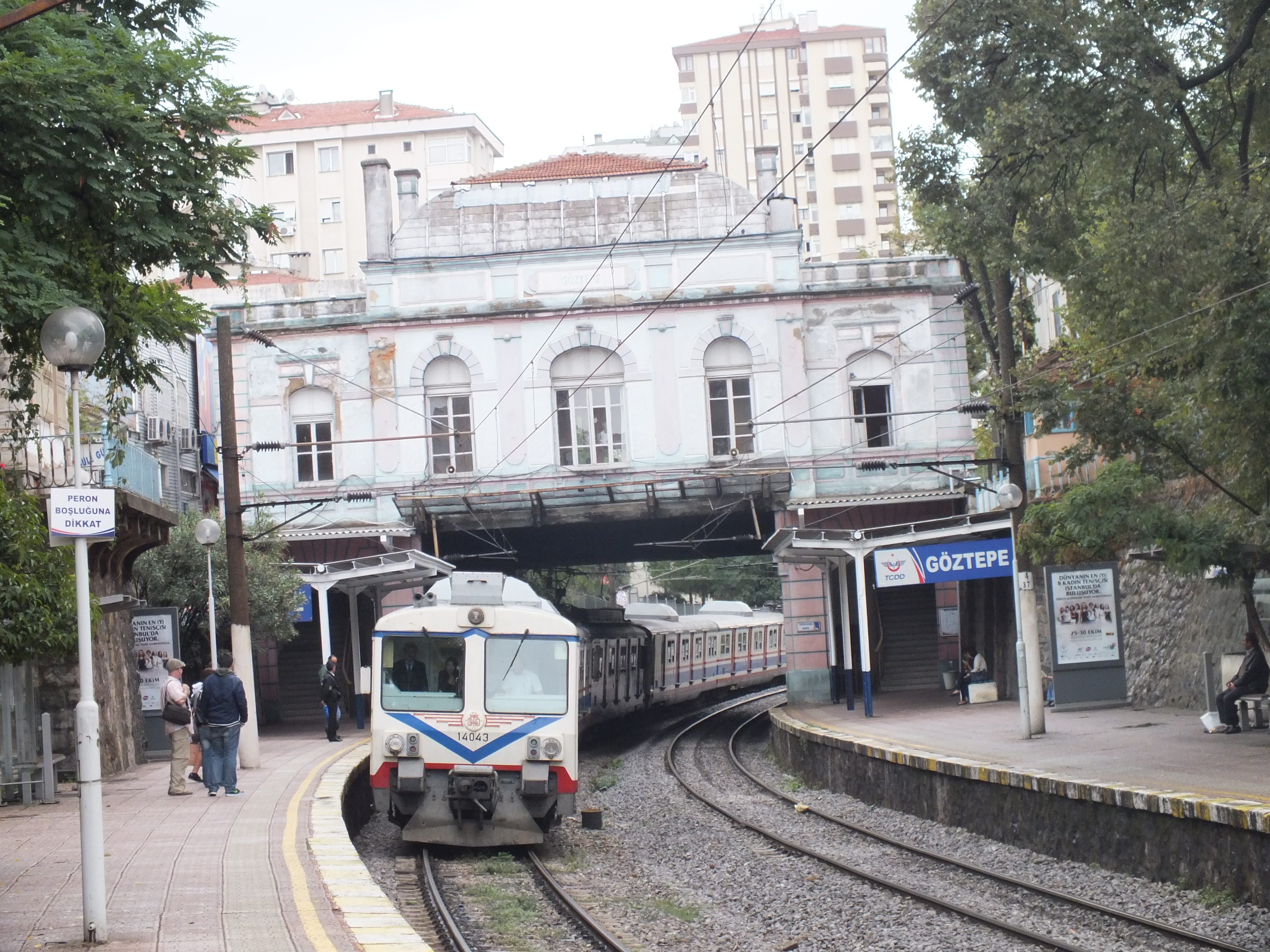 A westbound commuter train entering Göztepe station in İstanbul, with E14043 EMU leading.